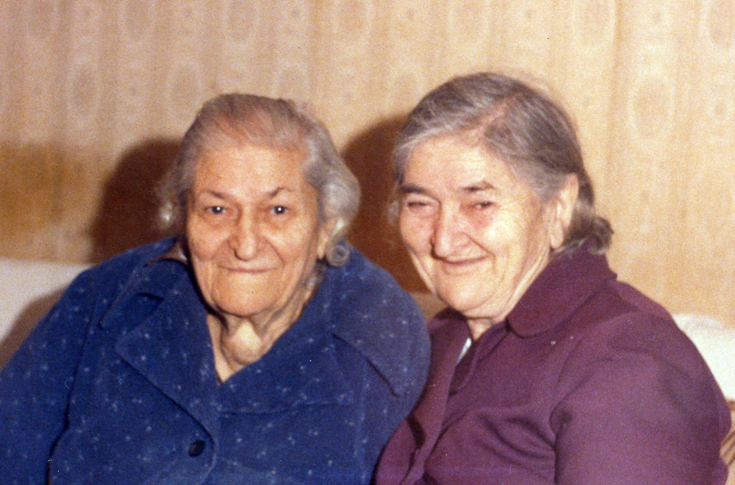 Edvard Chubaryan 75th Birthday, 05 May 2011 05, No. 12